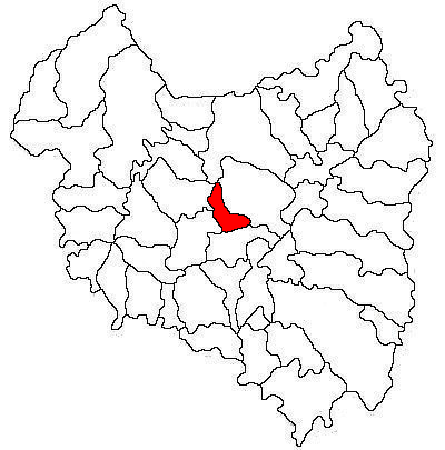 Localisation of Dalnic (Dálnok) on Covasna County's map